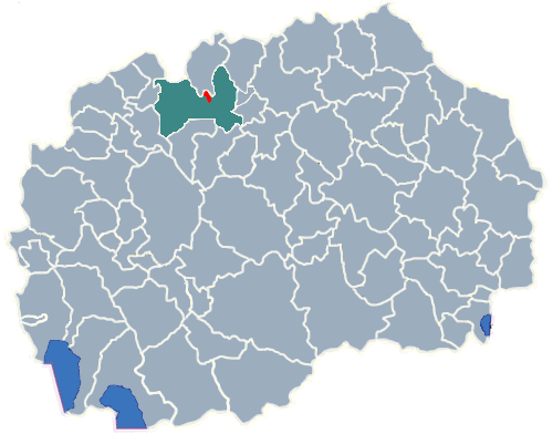 Category:Maps of Skopje